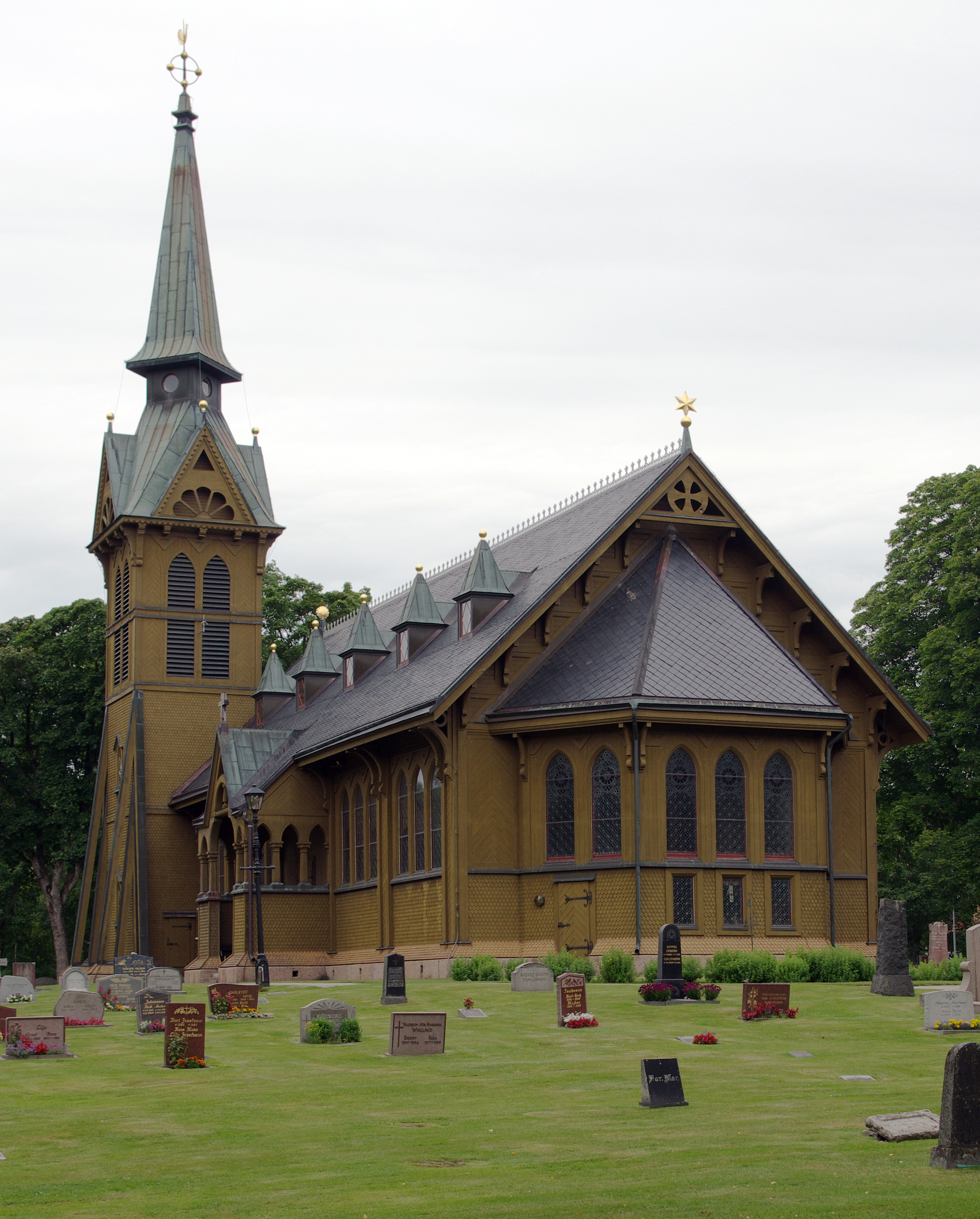 Nykyrka kyrka (swedish: church of Nykyrka), Västergötland, Sweden.